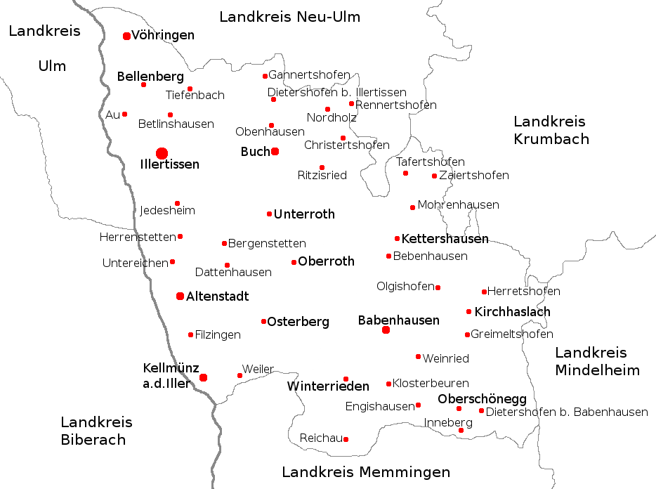 the former district of Illertissen – map